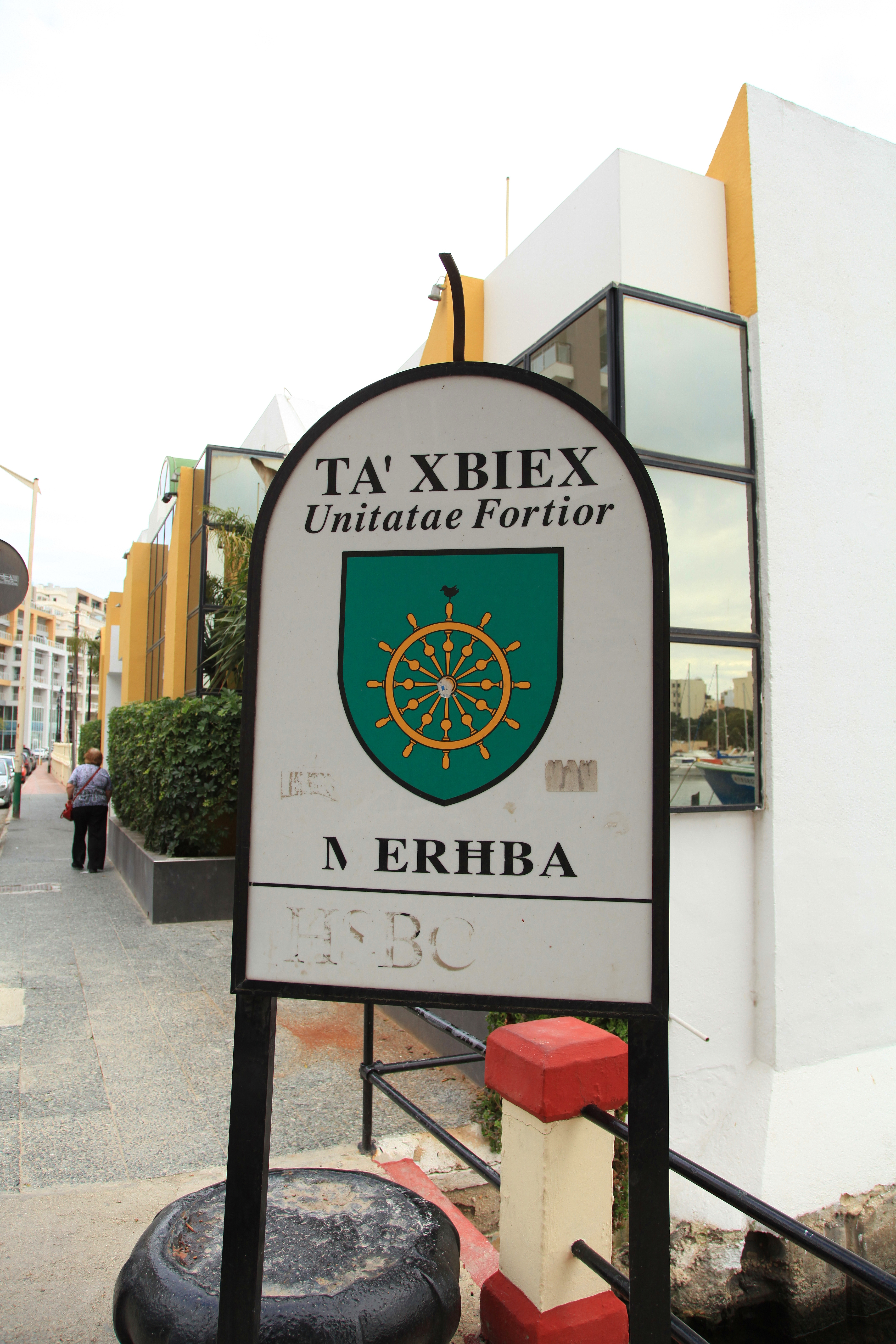 Ix-Xatt Ta' Xbiex in Ta' Xbiex, Malta